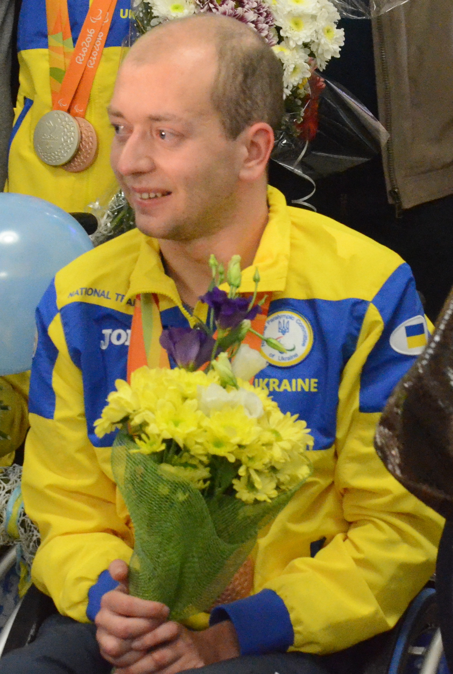 Ukrainian National Paralympic team welcomed at Boryspil (September 21, 2016)